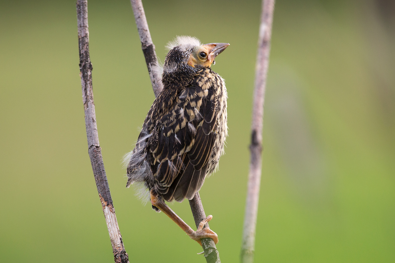 Птенец красноплечего трупиала